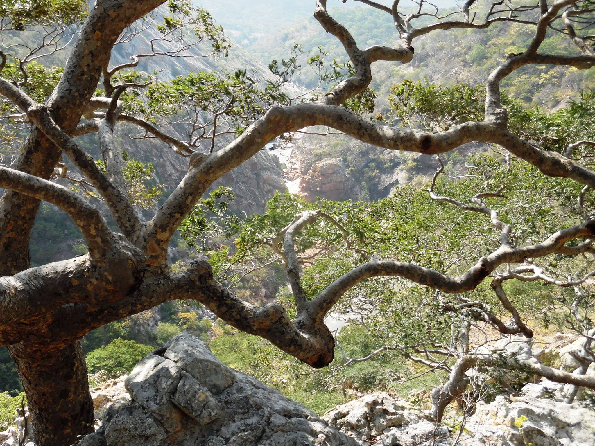 Brachystegia tamarindoides - Nyajiwa Falls on Gairezi_River, mountains on the Zimbabwe/Mozambique border north of Nyanga, Zimbabwe